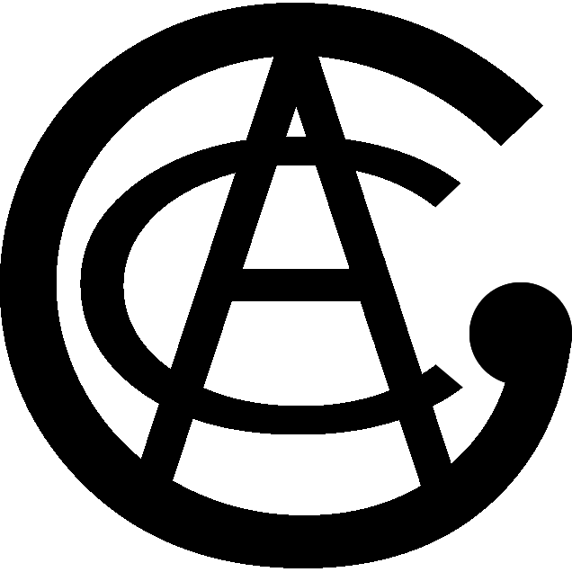 Historical badge of Athletic Club Galeno.